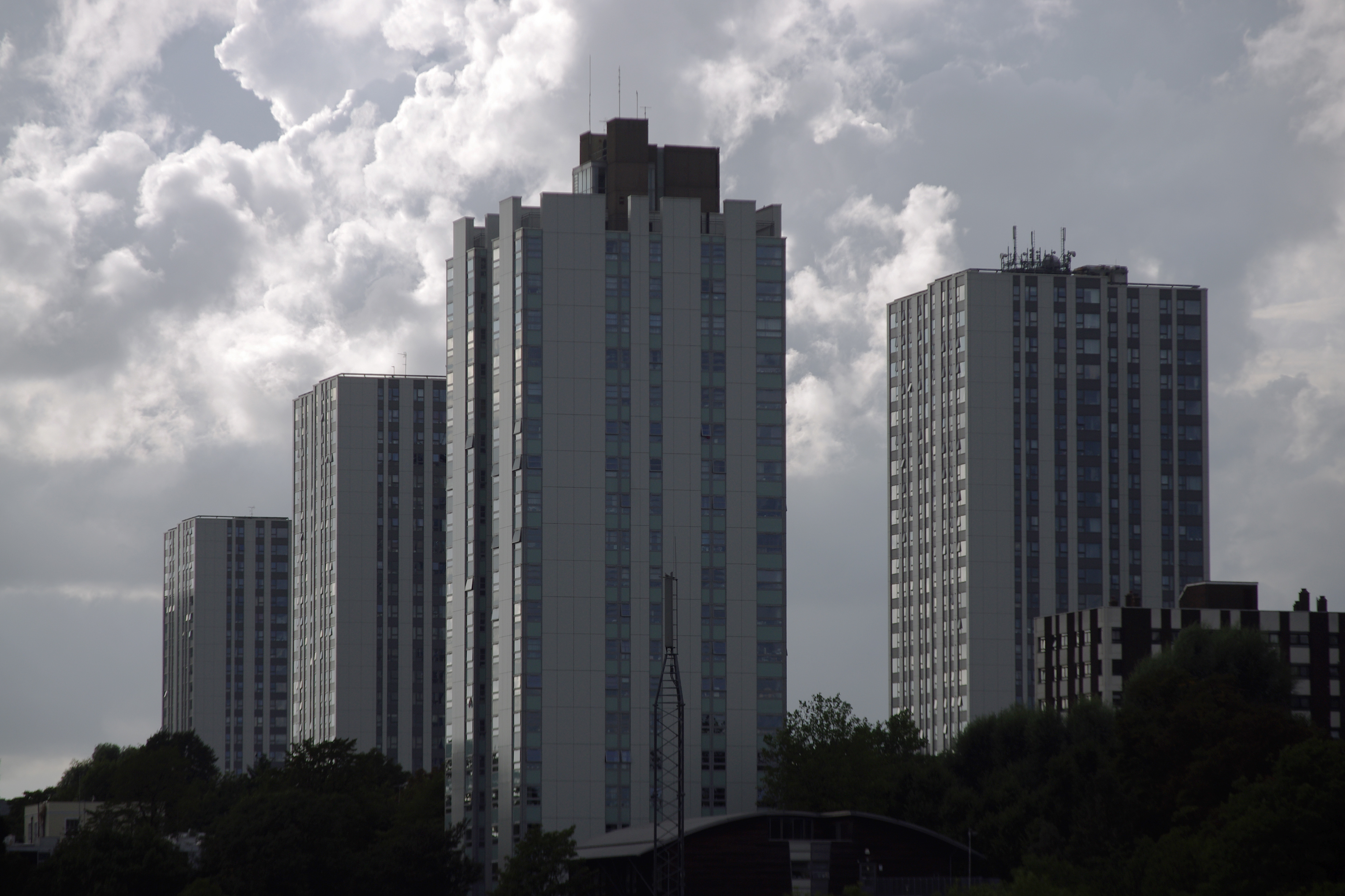 Tower blocks in St Johns Wood, London.